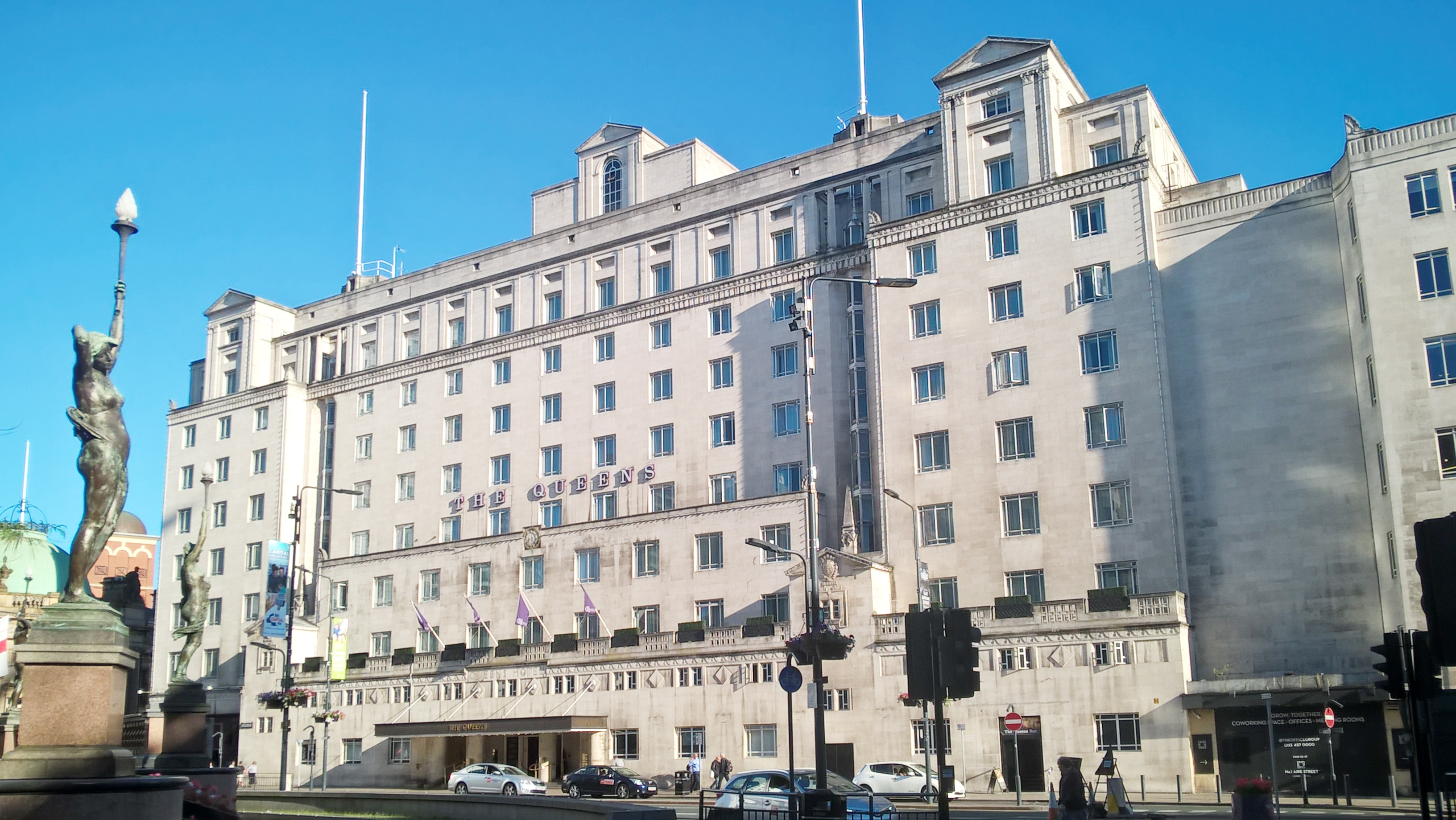 Queens Hotel Leeds, viewed from City Square. Statue of one of the nymphs by Alfred Drury on the left